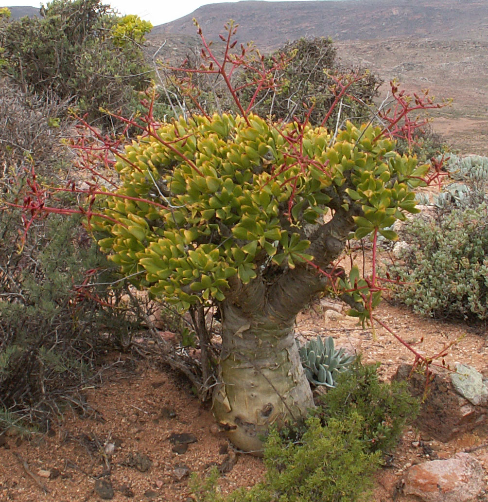 Tylecodon paniculatus, zoomed version of Image:PICT2534 Tylecodon paniculatus.JPG